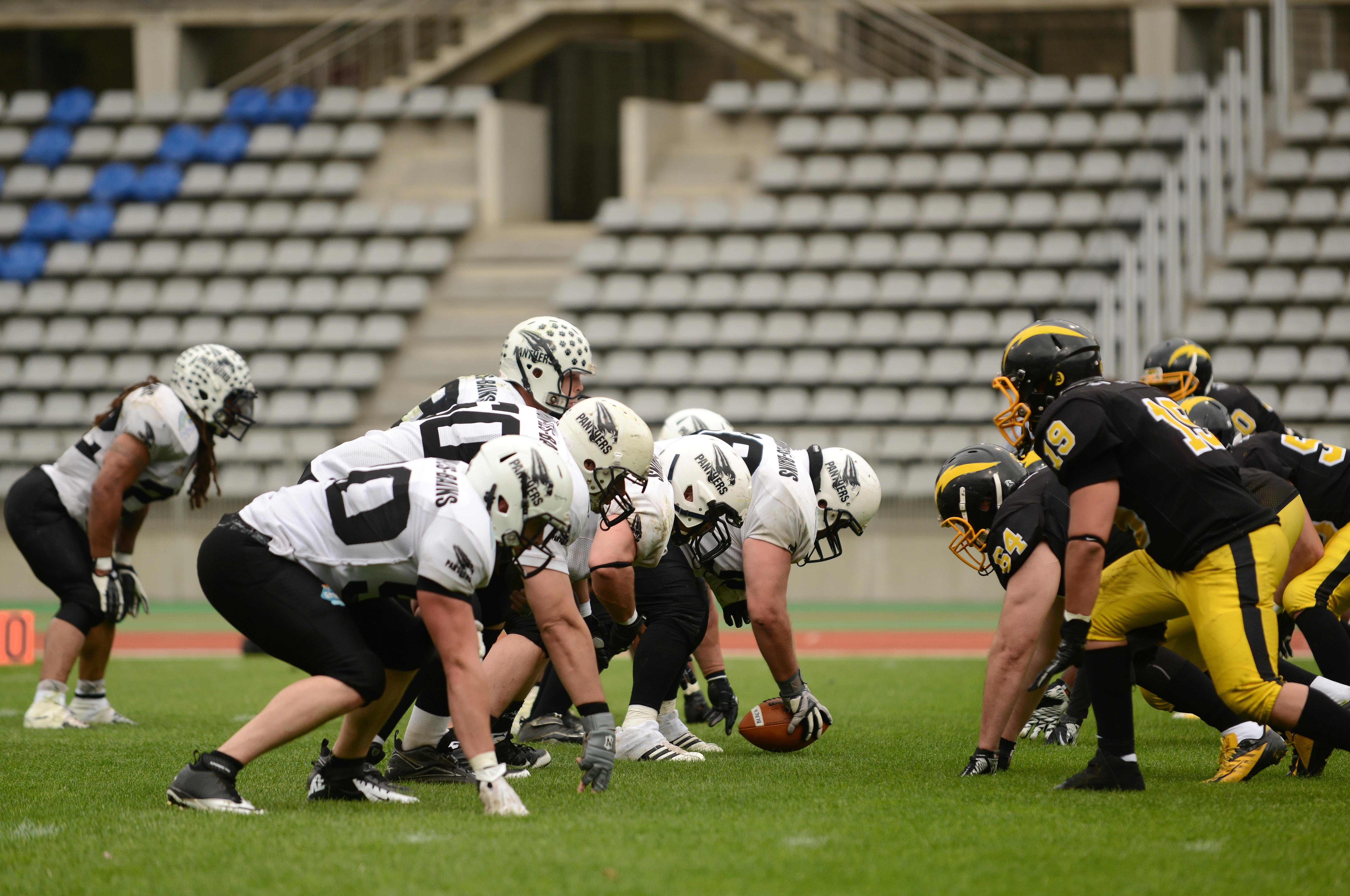 Thonon Black Panthers (left) and La Courneuve Flashs (right) line up along the line of scrimmage in the final of the French American Football Championship 2013 at Stade Charléty in Paris.